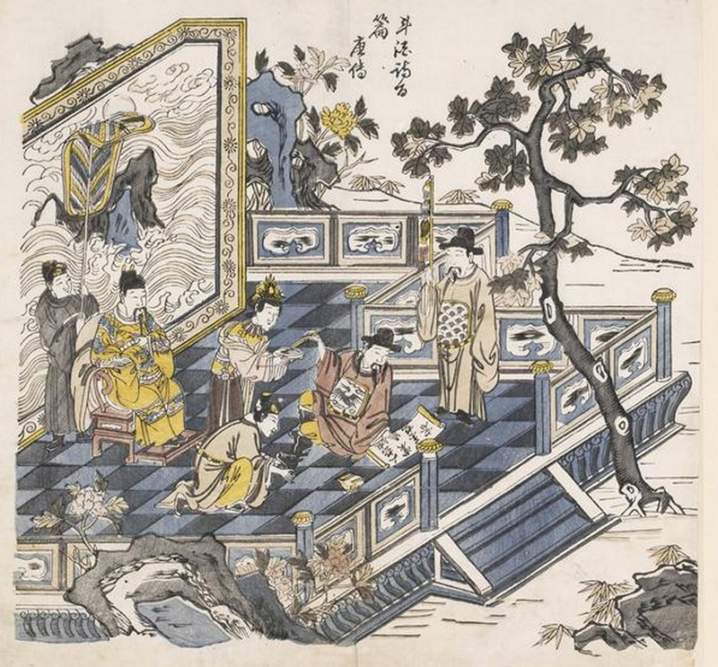 Emperor Minghuang, seated upon a terrace, observing Li Bai write poetry. Retouched print, ink and color on woodblock. From the seventeenth century and in the British Museum since 1928.